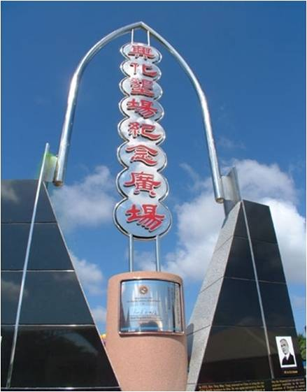 Hin Hua Memorial Garden in Sibu, Sarawak, Malaysia.